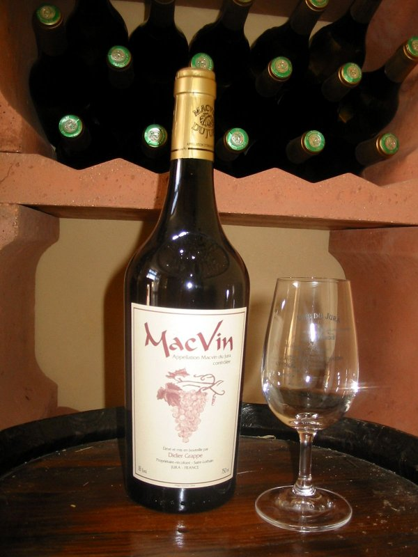 Macvin du Jura, a vin de liqueur/mistelle from Jura